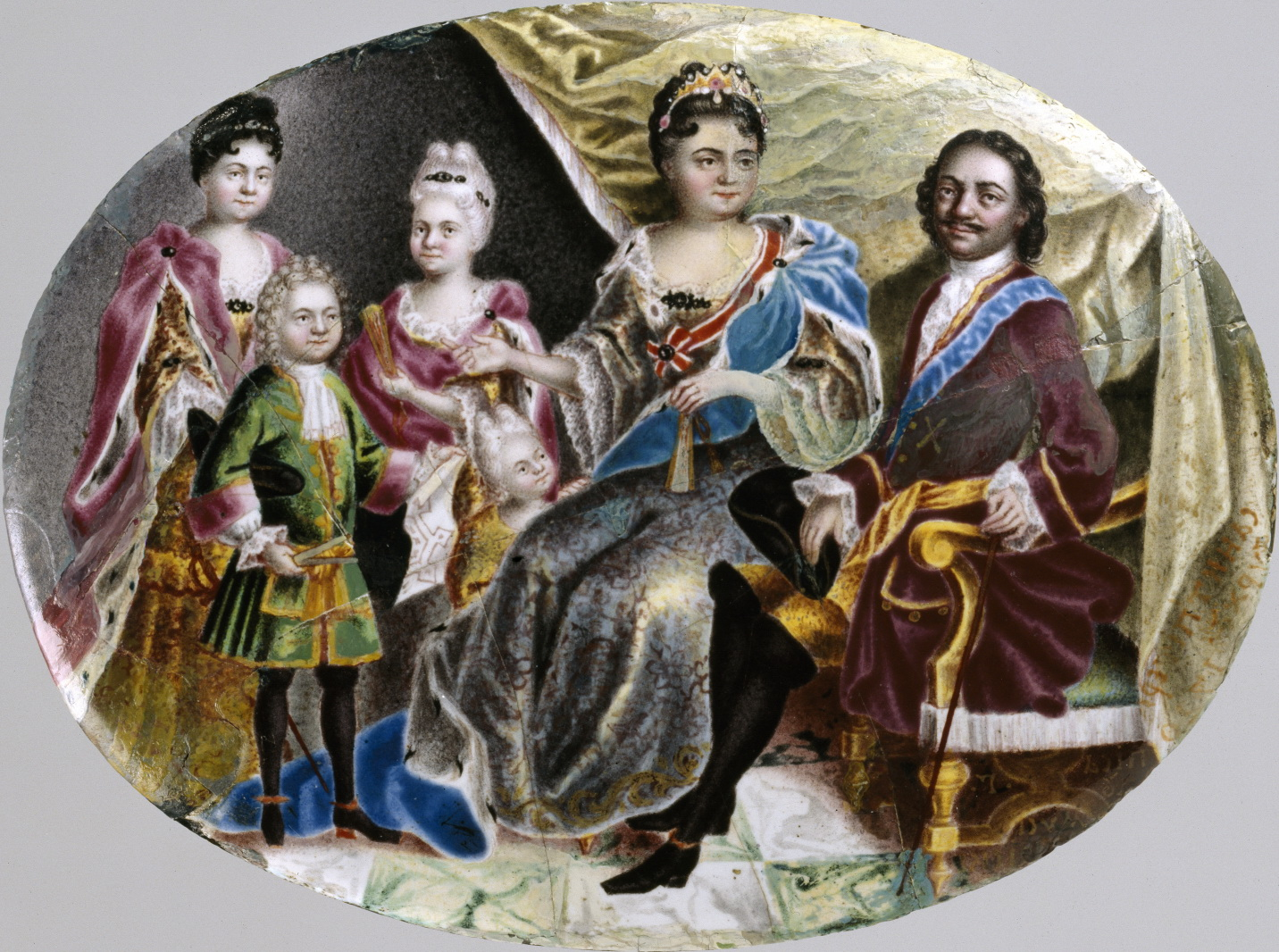 This medallion is dated and signed on the back by Gregory Musikiiskii, the first Russian painter of portrait miniatures. It can be compared to an earlier enamel painting of Peter the Great with his family, now in the Hermitage Museum, Saint Petersburg, executed by the same artists in 1717. Here, the Russian emperor is depicted together with his wife Catherine, his three daughters Anna, Elizabeth (the future empress), and Natalia, and his grandson Peter (the future Peter II). Musikiiskii was transferred from the Moscow Kremlin Armory to St. Petersburg to work for the court of Peter the Great, the founder of modern Russia.